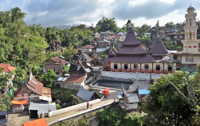 Masjid Pariangan